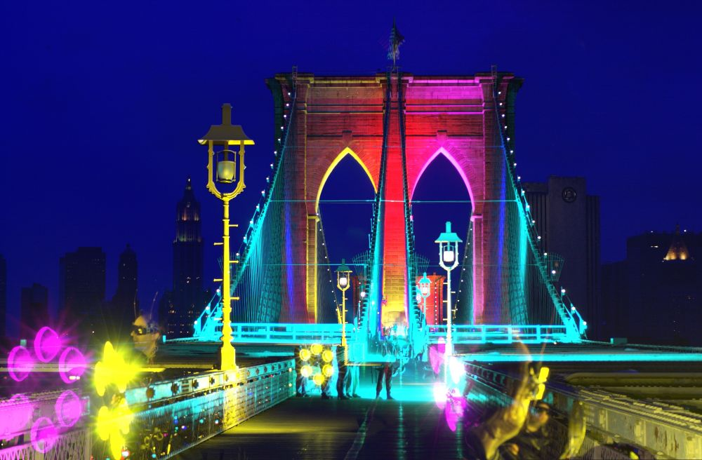 Computational photography as art form, book cover